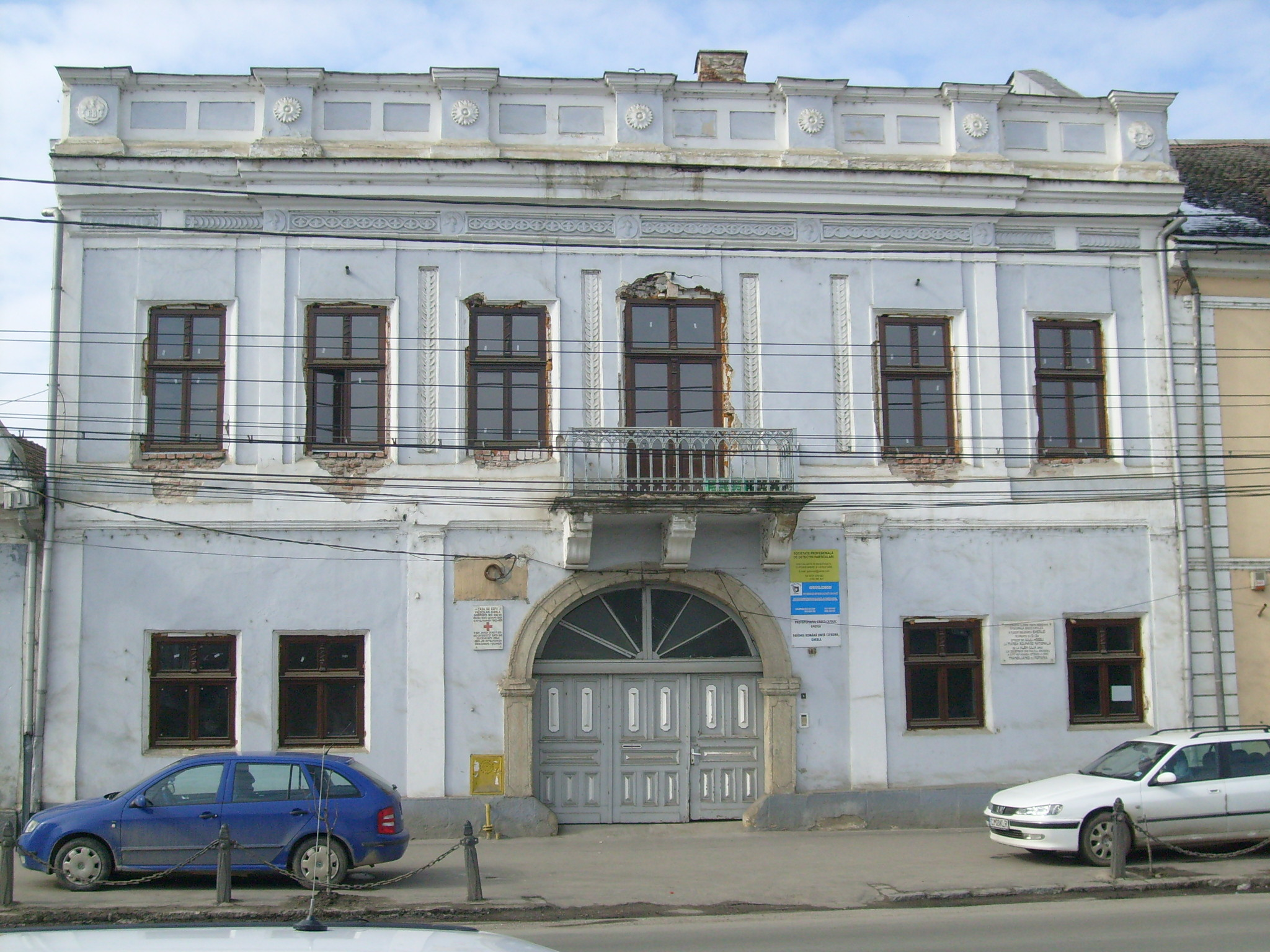 Gherla. The first seat of the Cluj-Gherla Bishopric (XIXth century).